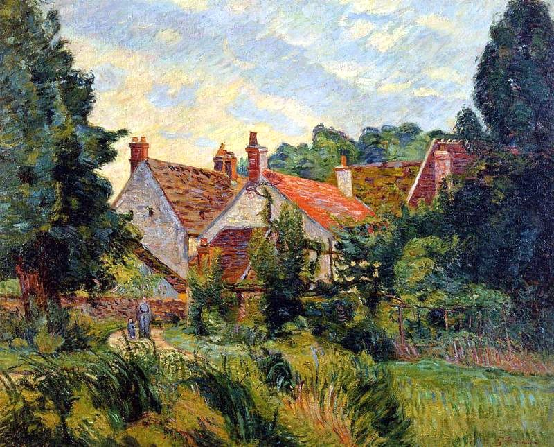 Epinay-sur-Orge